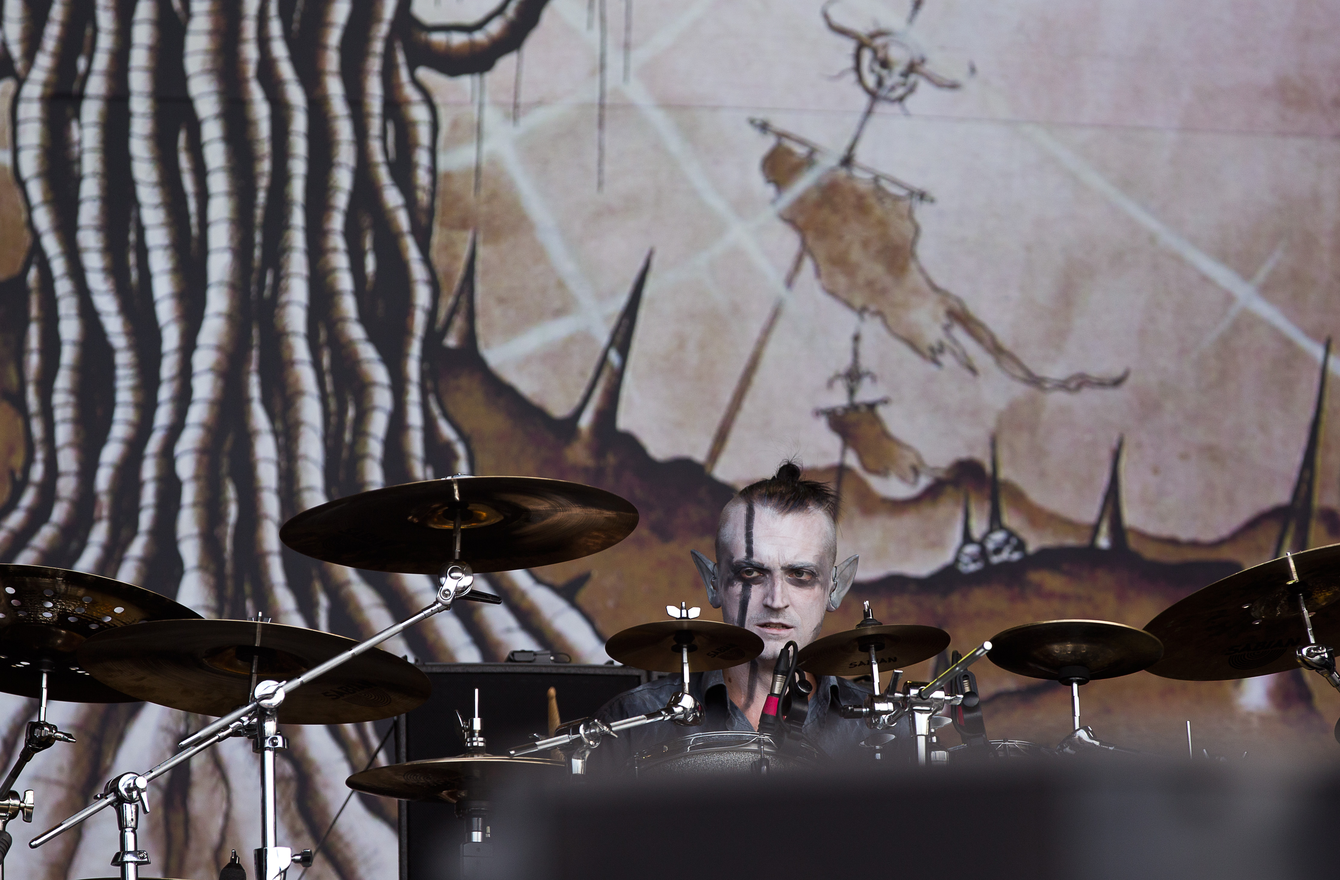 The Finnish folk metal band Finntroll at the Rockharz Open Air 2016 in Ballenstedt/Germany.